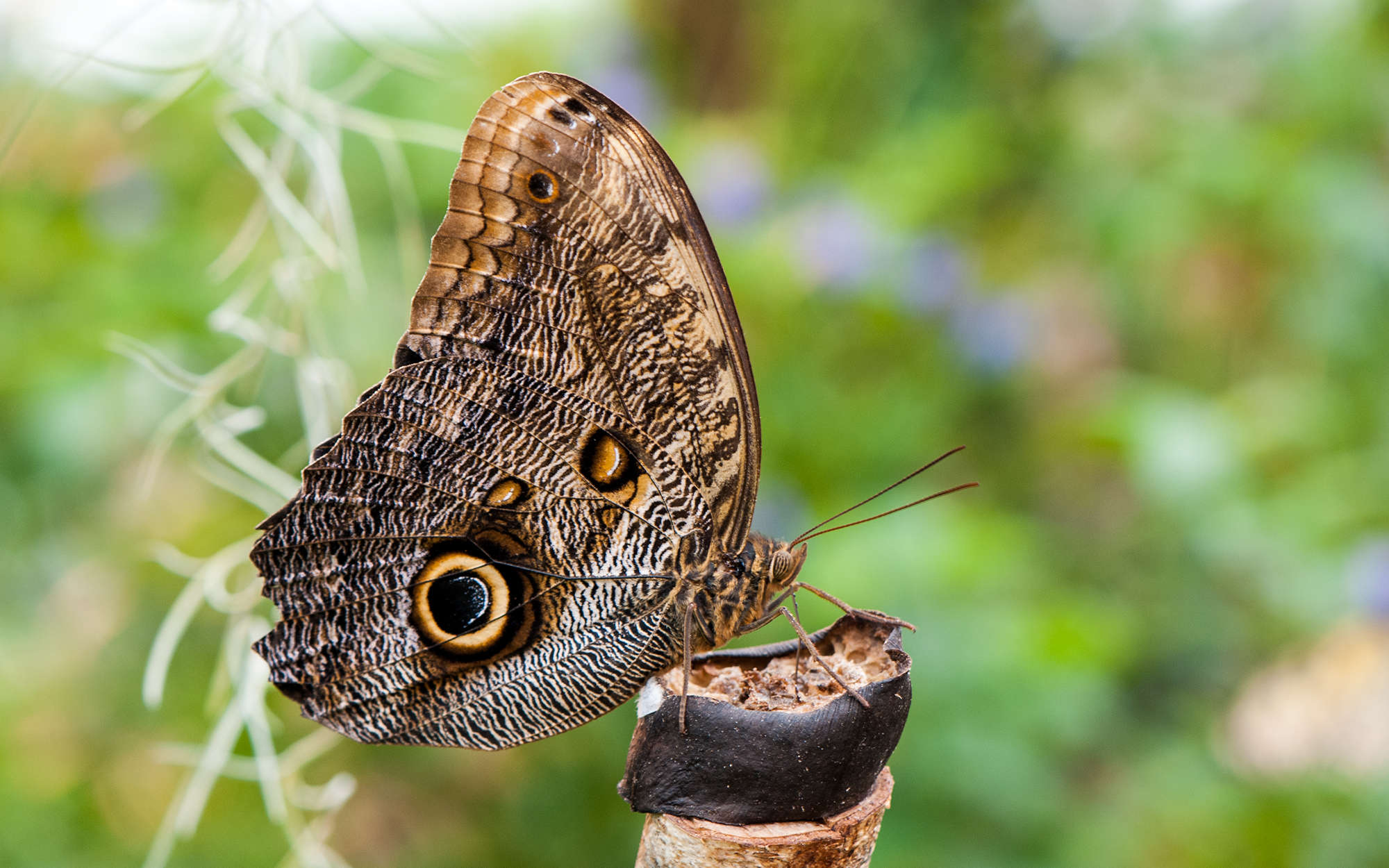 Forest Giant Owl (Caligo eurilochus) in the butterfly garden of the Maximilianpark in Hamm, Germany.